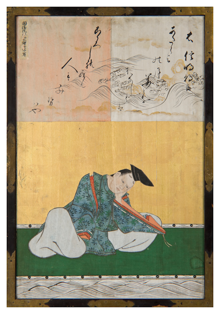 Sanjūrokkasen-gaku (Thirty-six Poetry Immortals framed picture) #30: Saneakira Asomi (Minamoto no Saneakira)